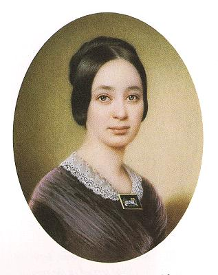 Portrait of Varina Howell Davis by John Wood Dodge (1807-1893), 1849, watercolor on ivory. National Portrait Gallery, Smithsonian Institution; gift of Varina Webb Stewart. Catalog description: Varina Howell was a young woman of lively intellect and polished social graces who married Jefferson Davis when she was at the age of eighteen. As the wife of the president of the Confederacy, she lived in Richmond during the Civil War and admirably fulfilled her three primary roles as an affectionate spouse to a proud and sensitive husband, an attentive mother to five young children (two of whom were born during the war), and a socially engaging first lady.